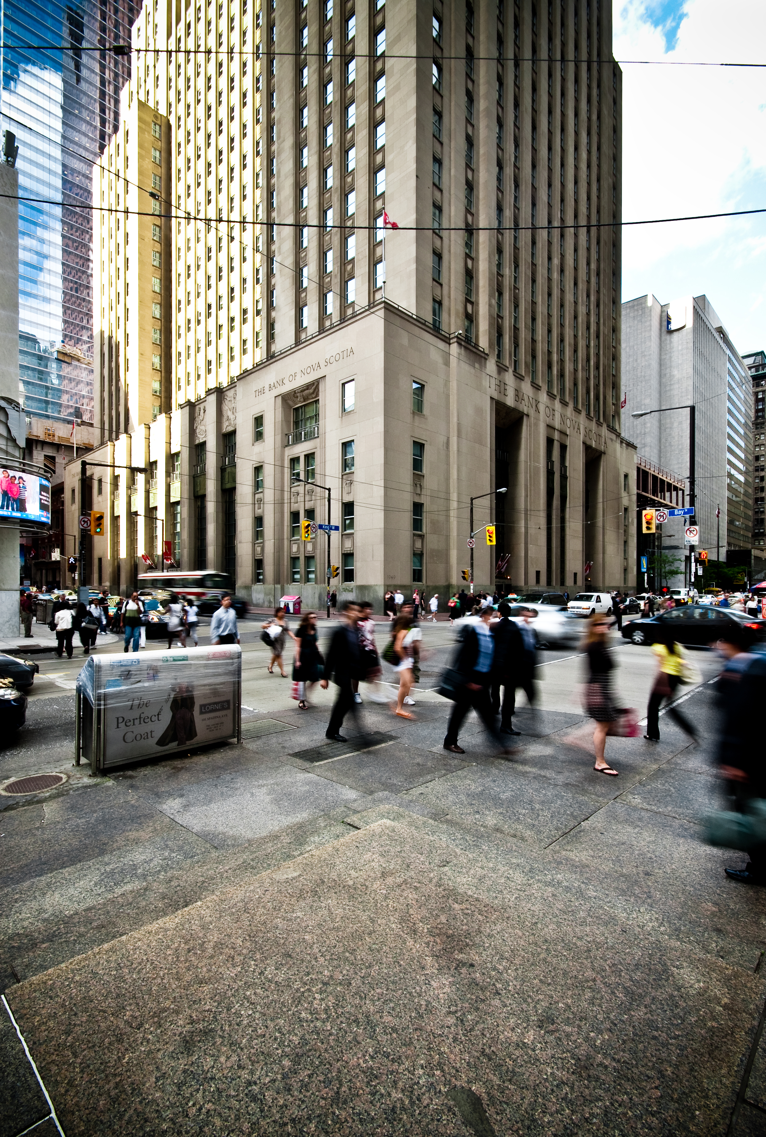 Pedestrians at Bay and King Streets, with the Bank of Nova Scotia building in the background. Toronto, Canada.